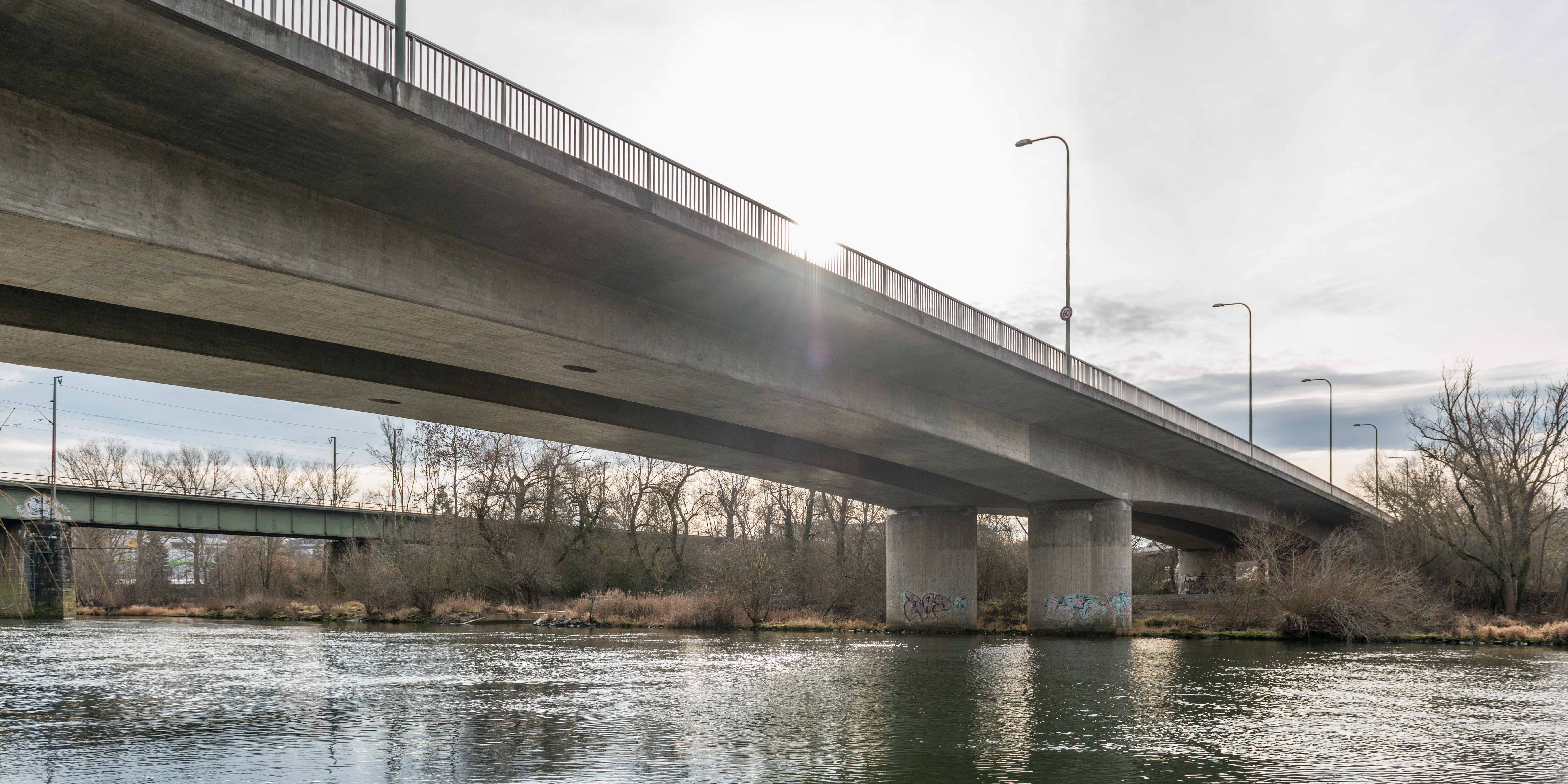 The Konrad-Adenauer-Brücke in Würzburg